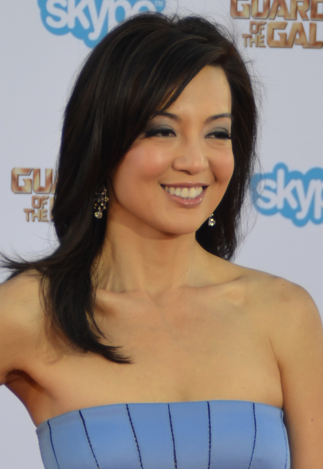 Ming-Na Wen at the Guardians of the Galaxy premiere in July 2014